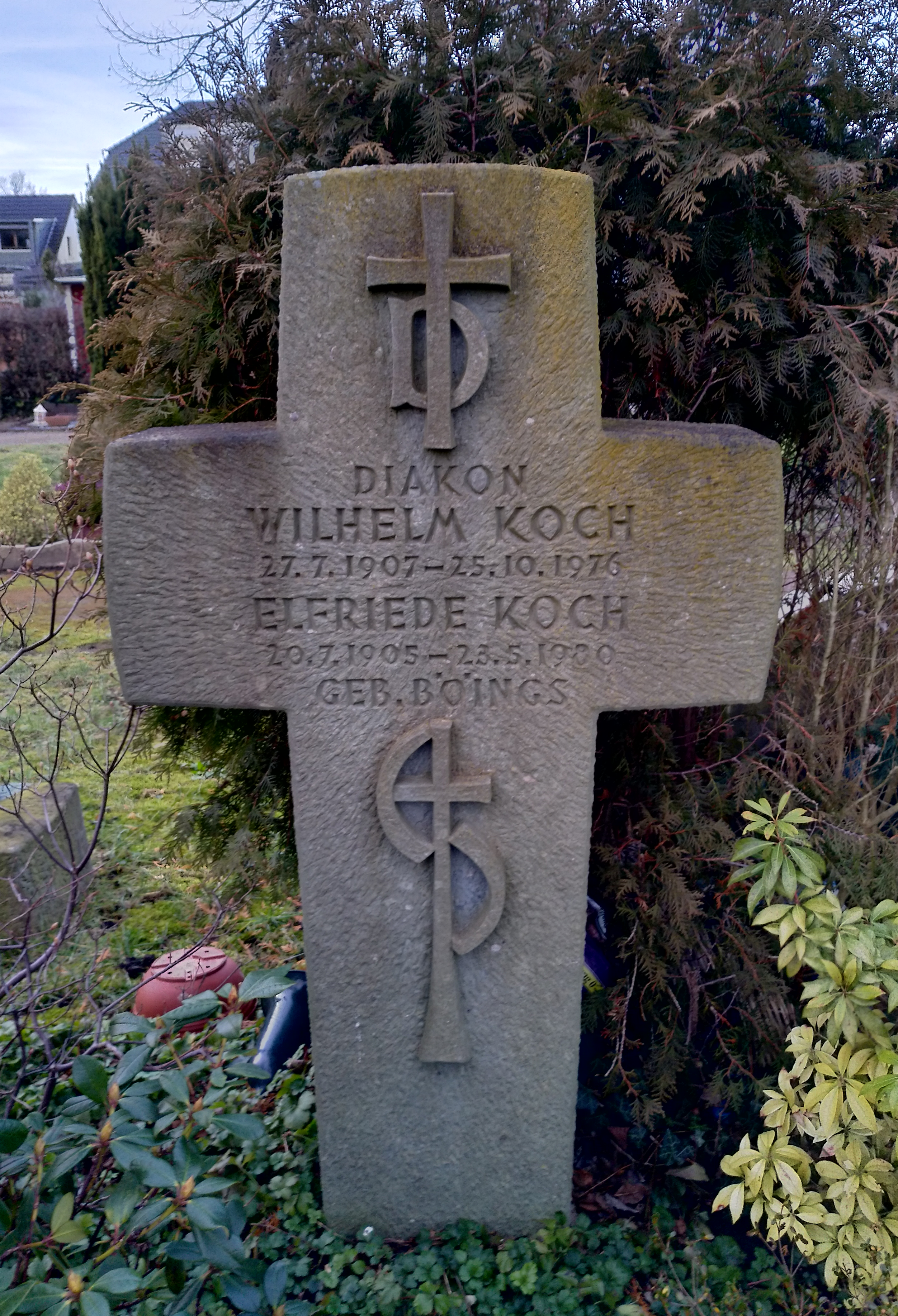 Tombstone of diacon Wilhelm Koch and his wife Elfriede Koch, born Böings, located on the protestant cemetery of Aplerbeck in Dortmund/Germany.